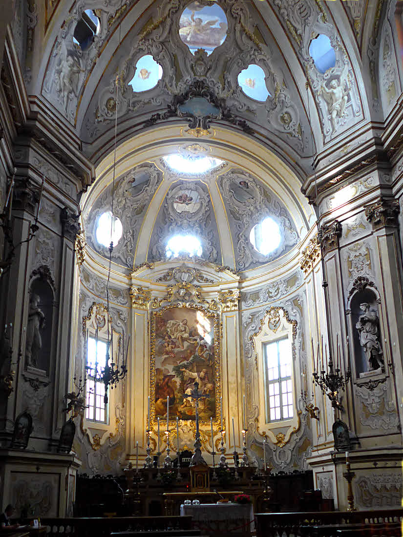 Looking towards altar, showing "two layer" ceiling